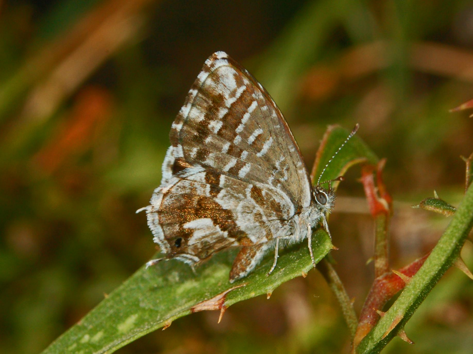 Lycaenidae - Cacyreus marshalli